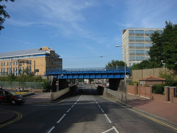 Darkes Lane, Potters Bar with railway bridge.